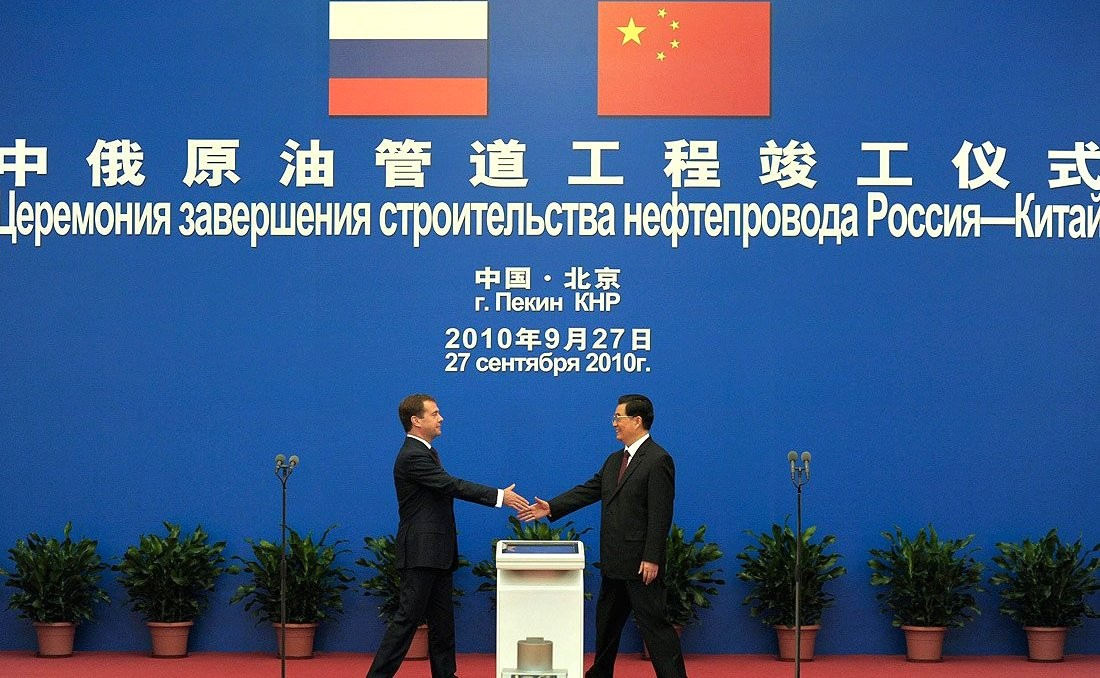 With President of China Hu Jintao at the ceremony marking the completion of the Russia-China oil pipeline.